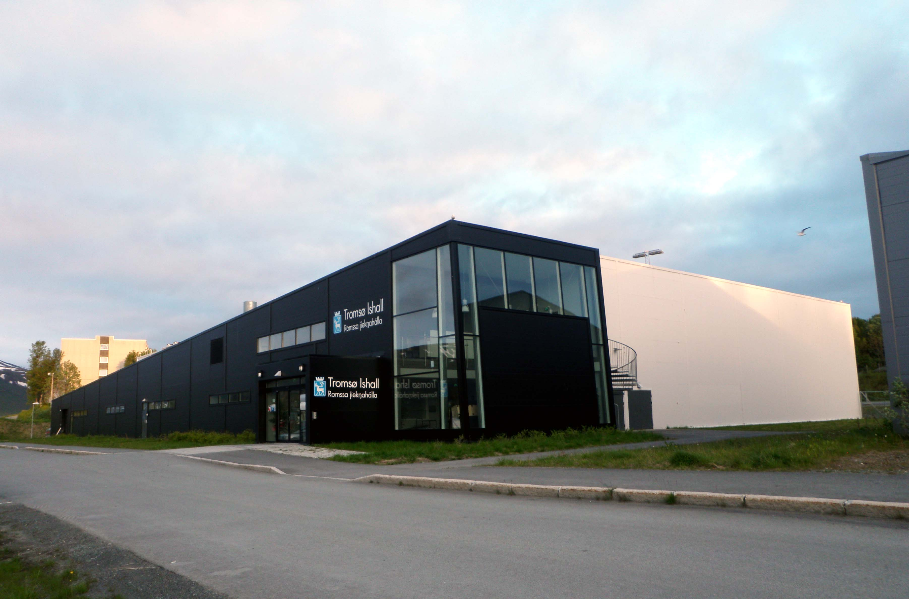 The ice arena Tromsø Ishall in Tromsø, Troms, Norway.